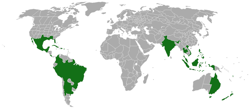 Psilocybe cubensis range map (Approximate) Created using a blank map from the commons and data from A Worldwide Geographic Distribution of the Neurotropic Fungi. This PNG graphic was created with GIMP.